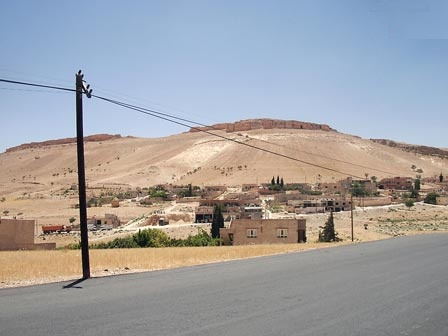 Alssehel village- Al Nabek - Syria